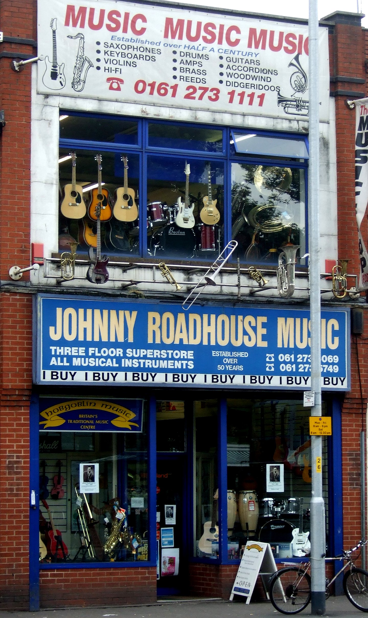 Johnny Roadhouse Music, Manchester, UK Johnny Roadhouse. I have bought guitar strings here before. I would love to buy a guitar, had I the money.